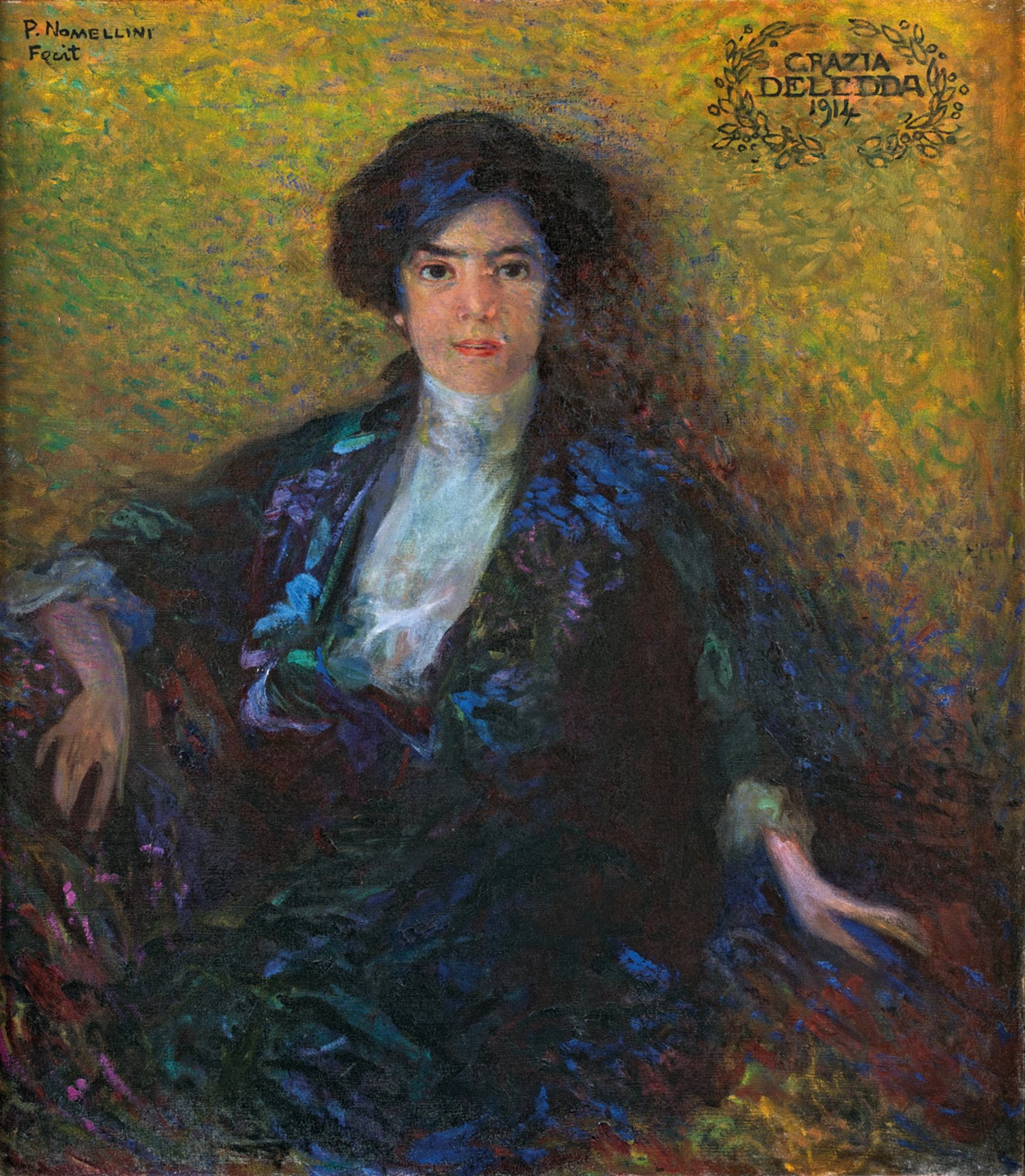 Portrait of Grazia Deledda by Plinio Nomellini, 1914, oil on canvas, private collection